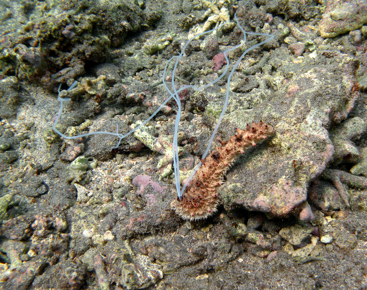 Stubbord sea cucumber (Holothuria pervicax) emitting its Cuvierian tubules in the reefs of La Réunion.